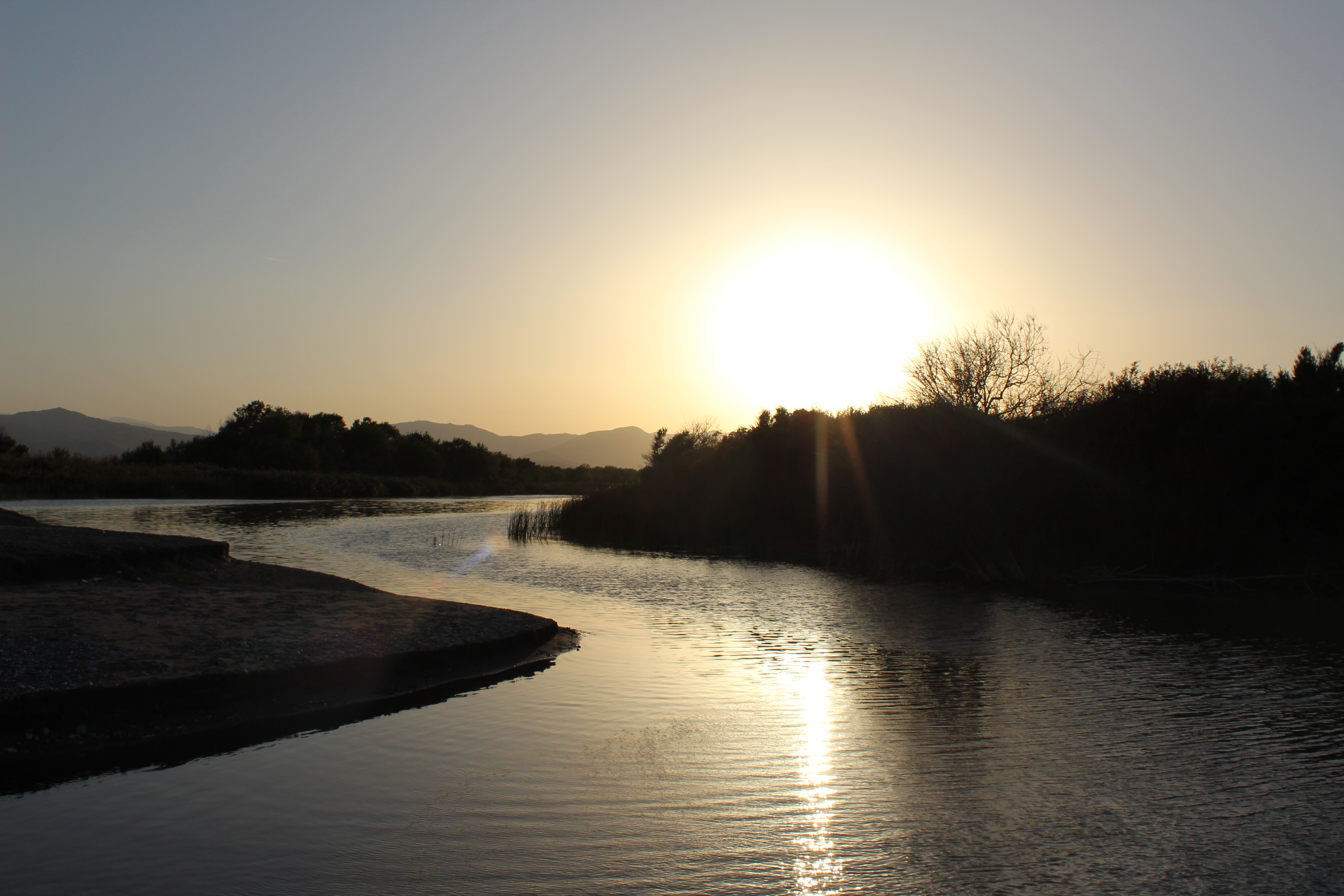 This is a photo of a monument which is part of cultural heritage of Italy. The authorisation for taking photos of this object was provided by the World Wide Fund for Nature Italy.